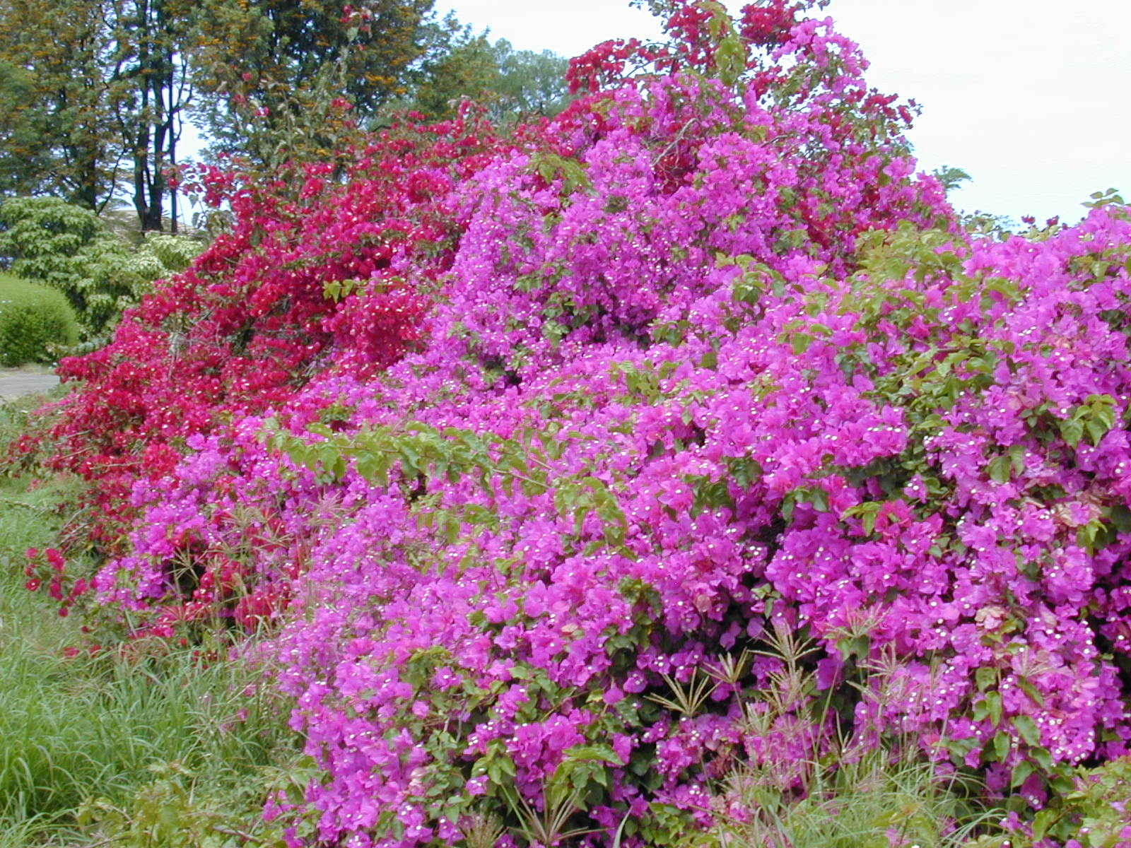 Bougainvillea spectabilis (flowering habit). Location: Maui, Kula